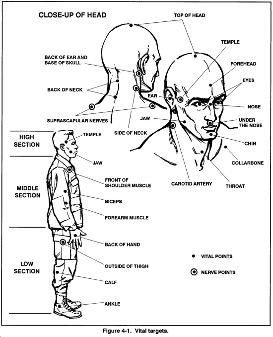 Manual illustration diagramming vital targets for use in US Army Combatives